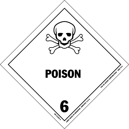 Label for dangerous goods, class 6.1a